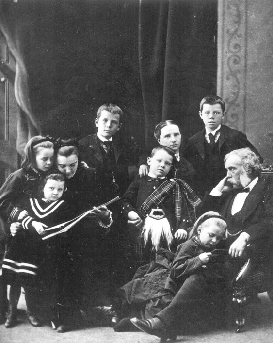 Family of Henri Gustave Joly de Lotbinière (1829-1908) and Margaretta Josepha Gowen (1837-1904). From left to right: Marguerite Anna (1864-1949), Ethel Blanche (1870-1935), Julia Josepha (1858-1942), Edmond Gustave (1859-1911), Henri Gustave jr (1868-1960), Margaretta Josepha Gowen, Alain Chartier (1862-1944), Mathilda Florence (1867-1904) and Henri Gustave sr.